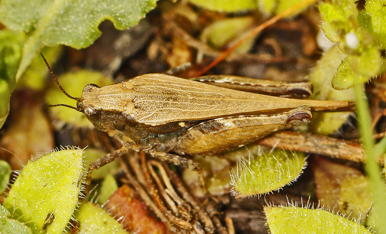 Black-sided Pygmy Grasshopper - Tettigidea lateralis, Julie Metz Wetlands, Virginia.